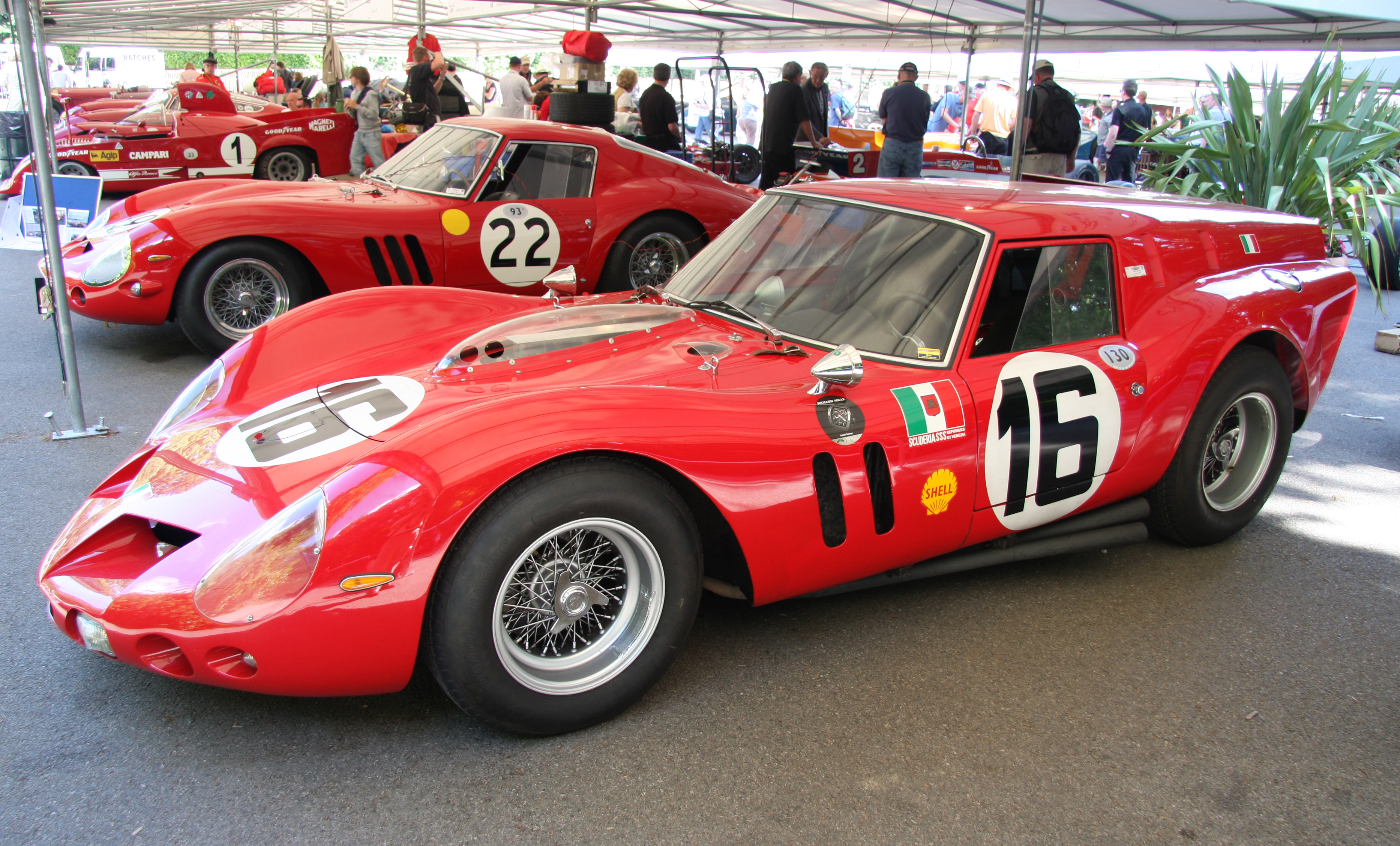 1961 Ferrari 250GT SWB 'Breadvan' at Goodwood 2009. In the back (#22) is 1962 Ferrari 250 GTO s/n 3757GT